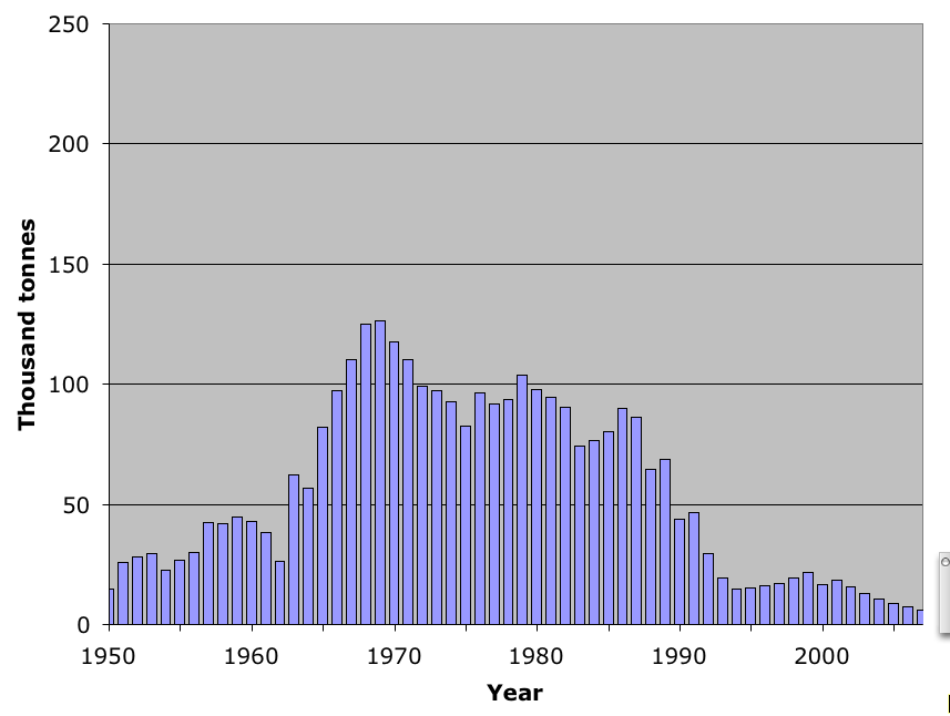 Graph of world catch tonnage 1950–2007 for American plaice, Hippoglossoides platessoides, using FAO catch data (scaled to match corresponding graph for European plaice)